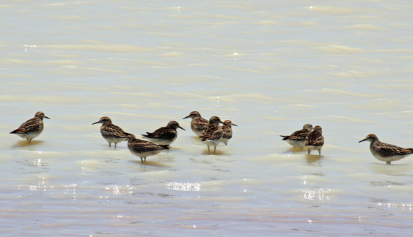 Sharp-tailed Sandpipers Calidris acuminata, Desert Channels, Qld, Australia